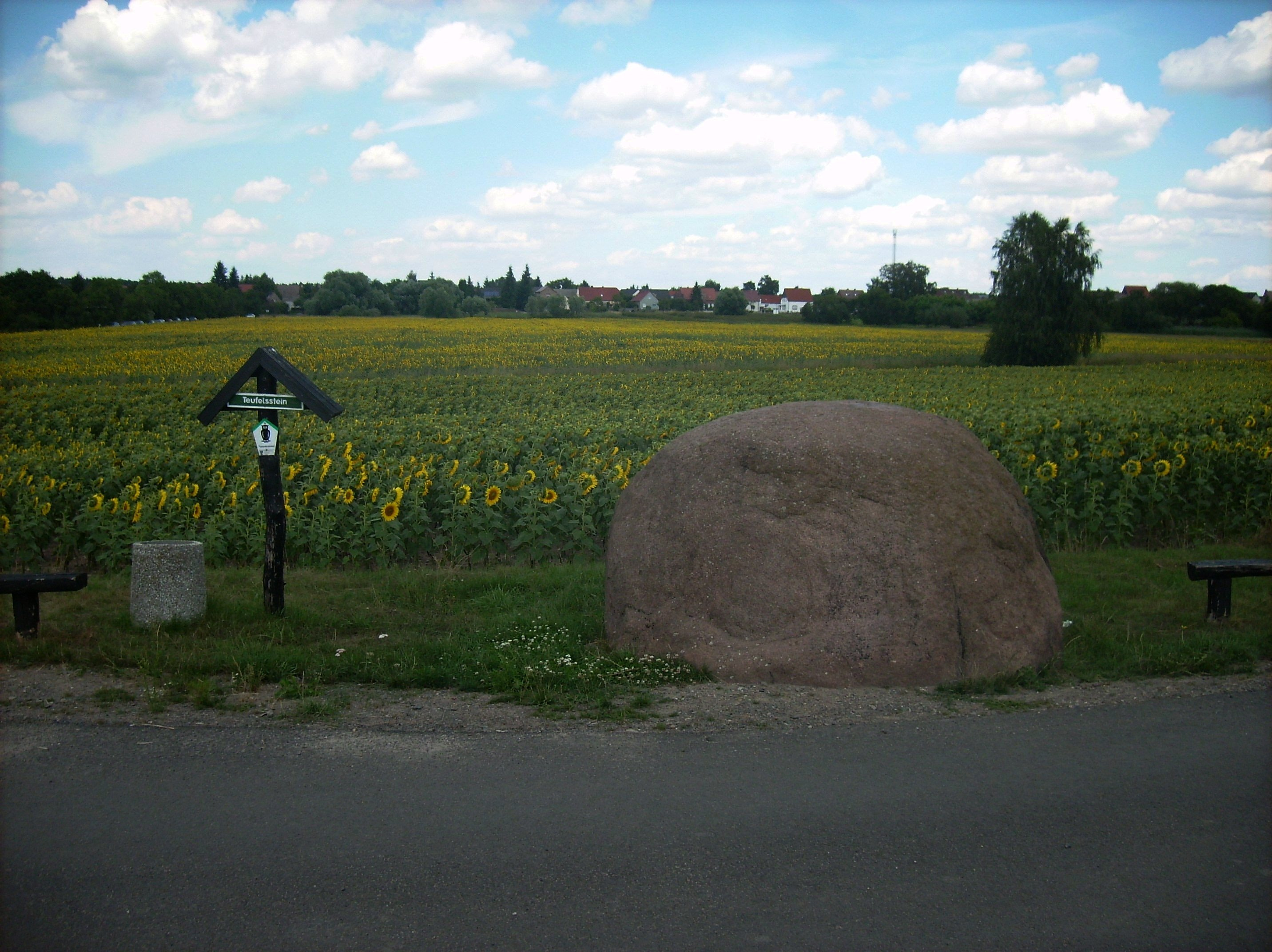 Devil's stone near Schköna (Gräfenhainichen, Wittenberg district, Saxony-Anhalt), a glacial erratic